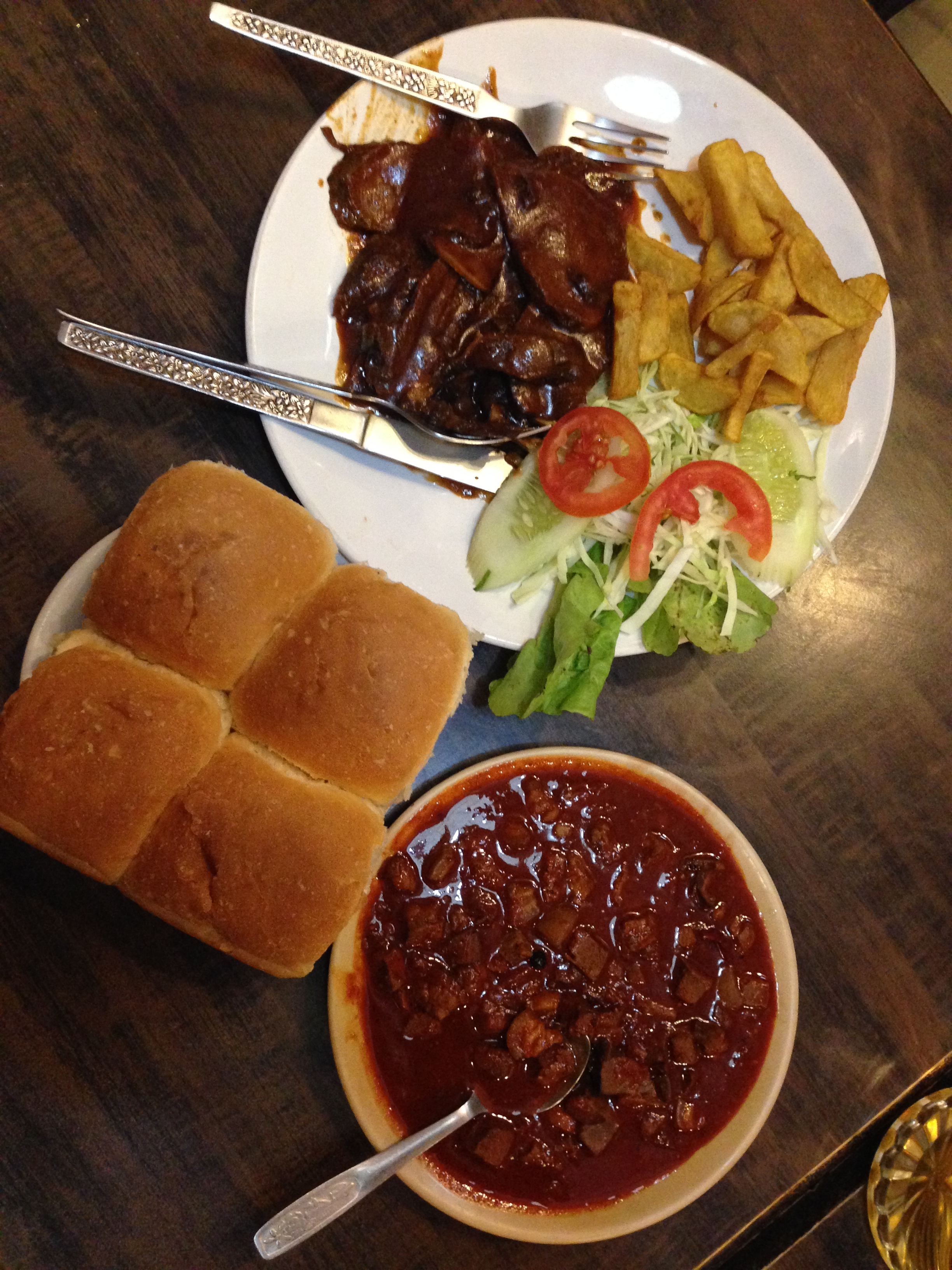 Pork Sorpotel with Pav and Beef tounge